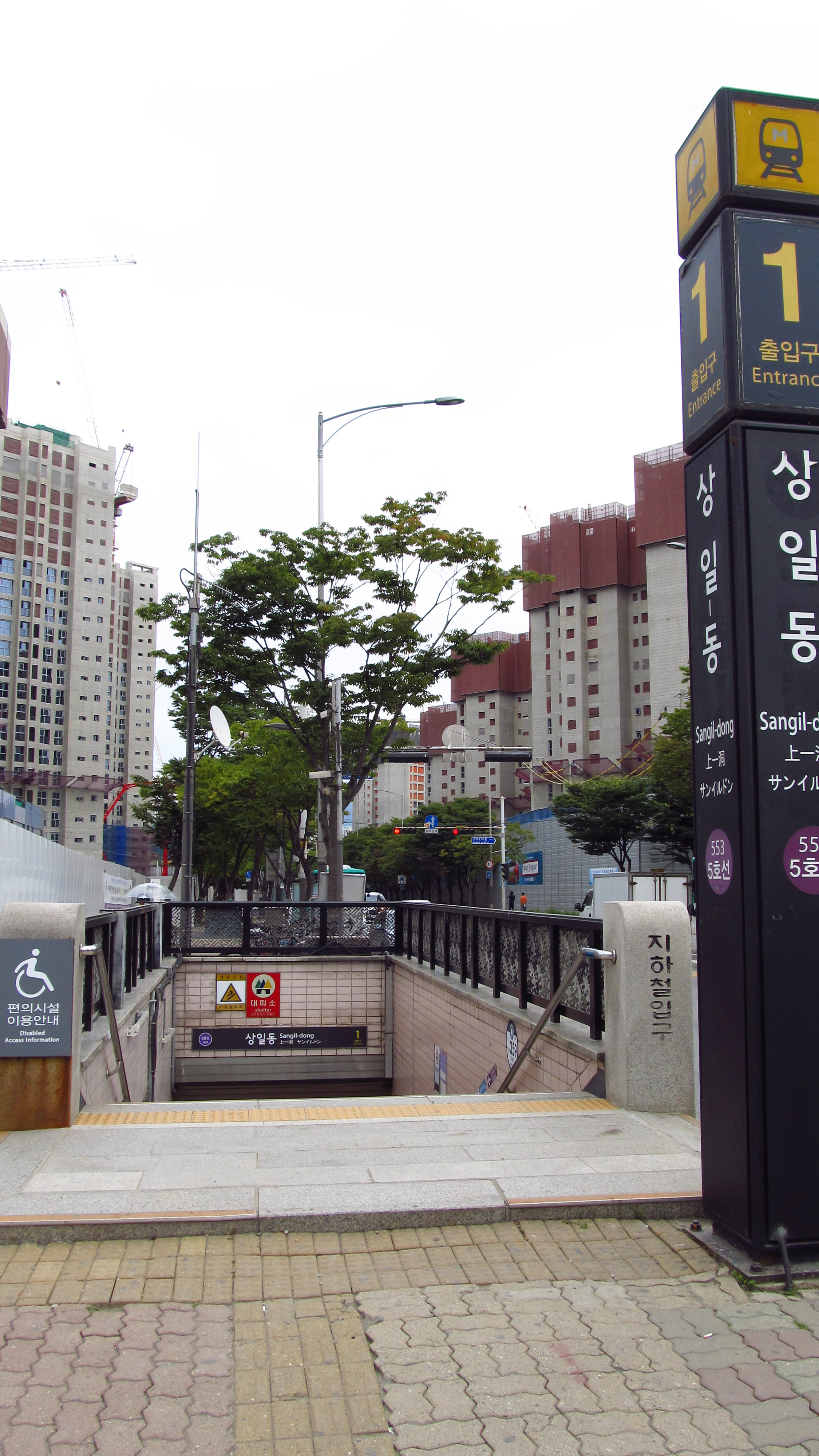 The no.1 entrance to Sangil-dong Station on the Seoul Metro Line 5 in Gangdong-gu, Seoul, Republic of Korea(South Korea)